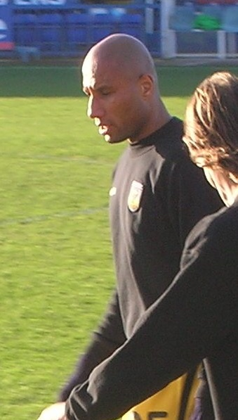 Georges Santos. Image cropped from original at flickr.